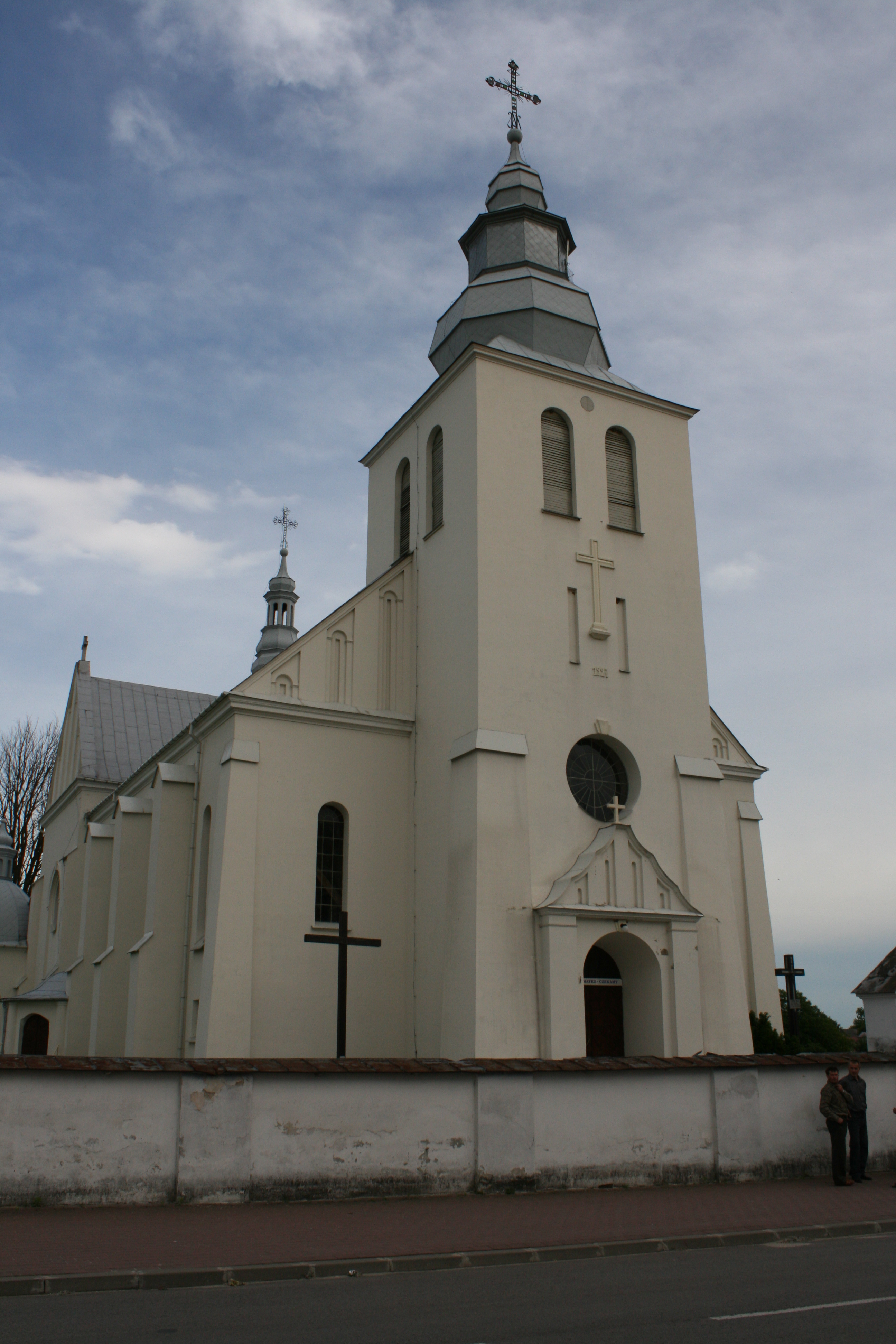 Our Lady of Częstochowa church in Dzwola.